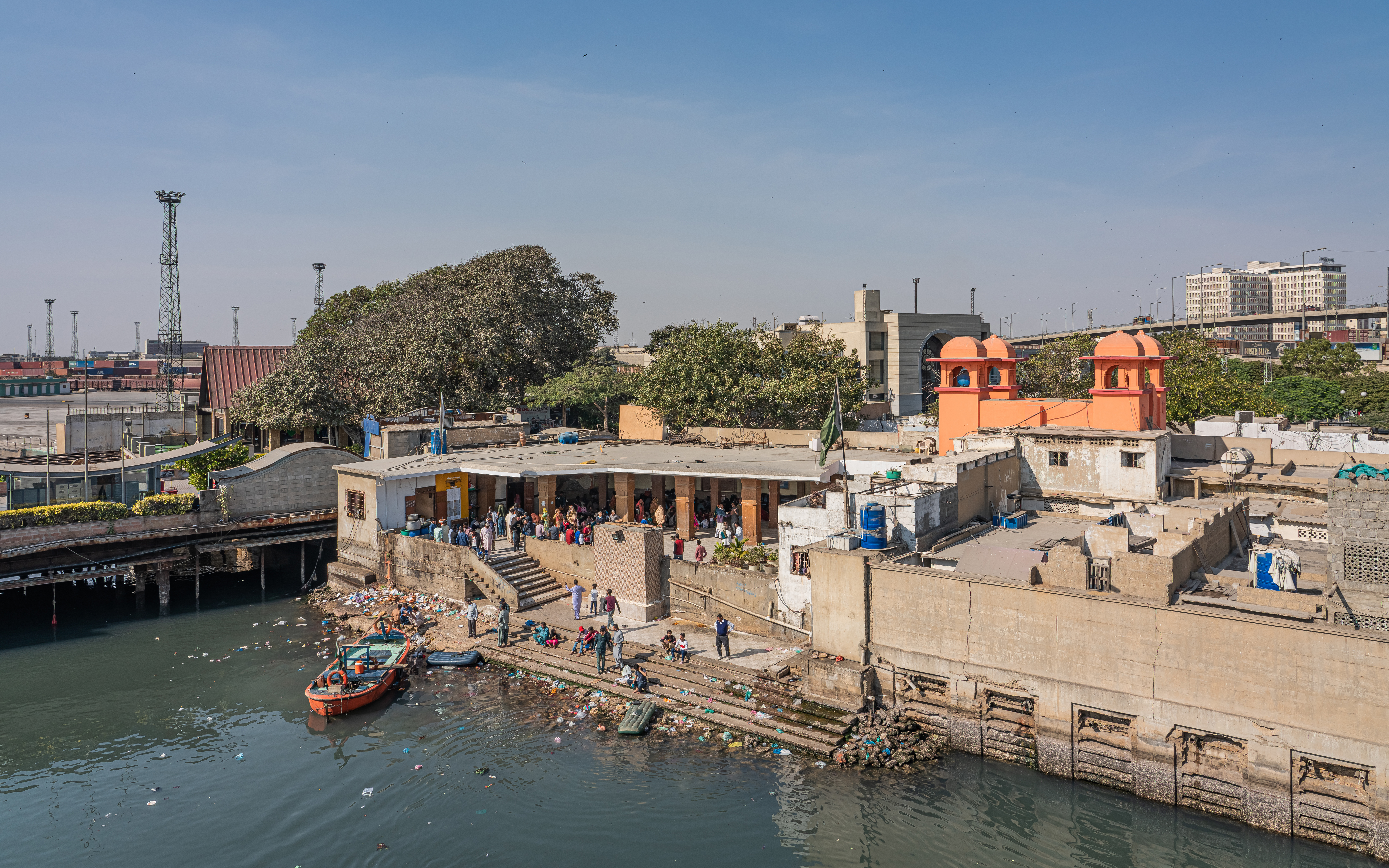 Pier of the Shri Narayan Temple in Karachi, Pakistan